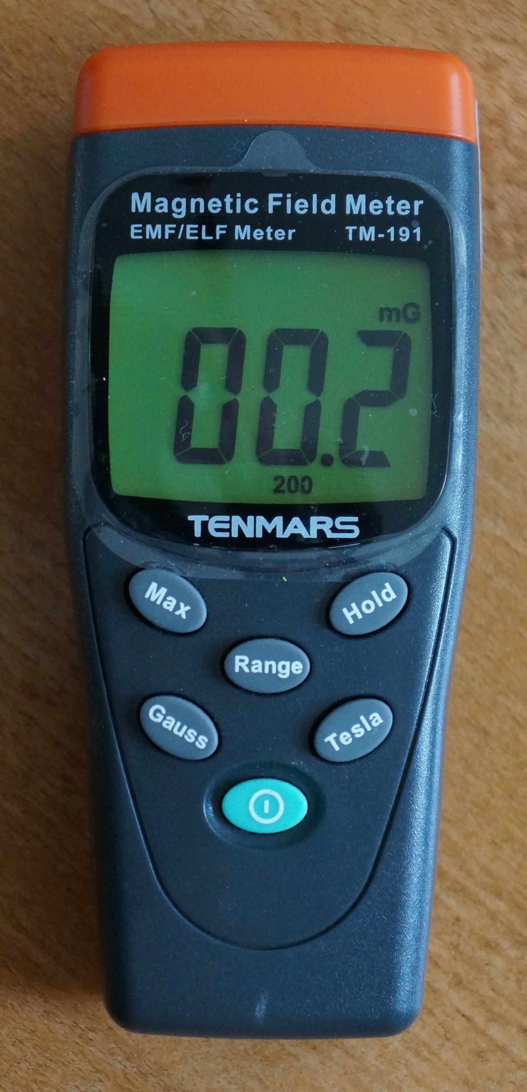 A simple handheld EMF meter.